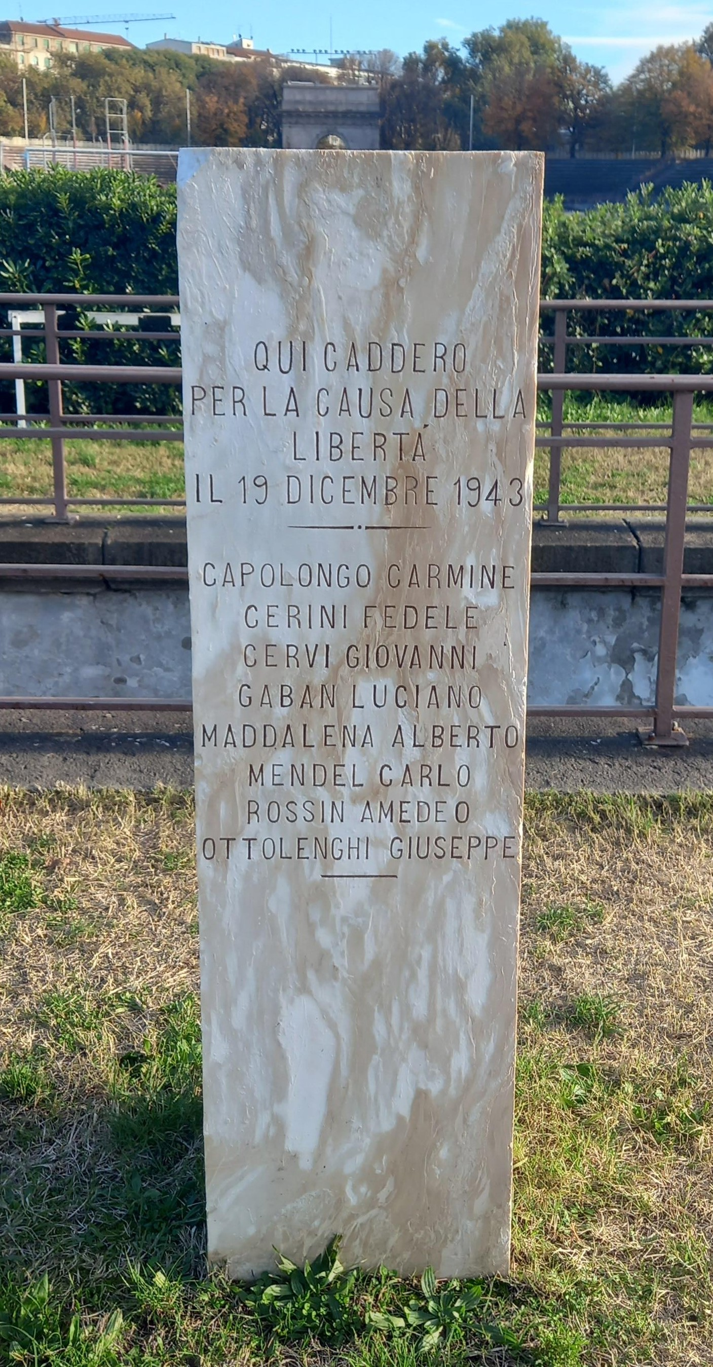 Commemorative stone in remembrance of the execution of eight partisans in The Milan Arena on December 19, 1943